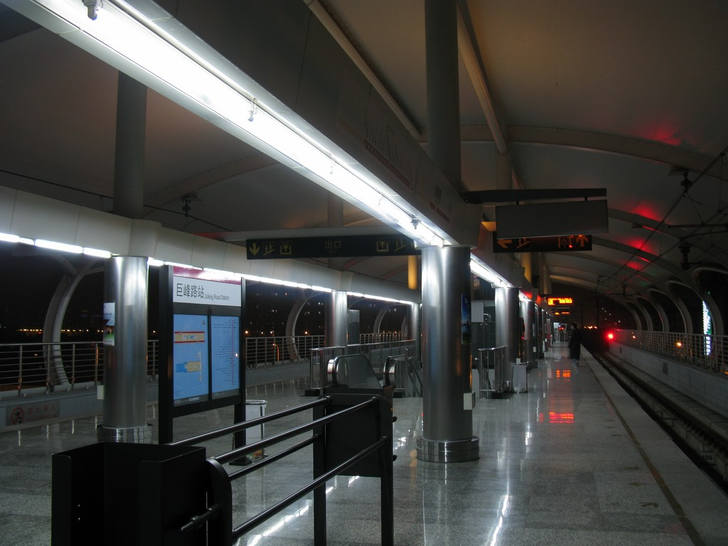 Line 6 Platform of Jufeng Road Station